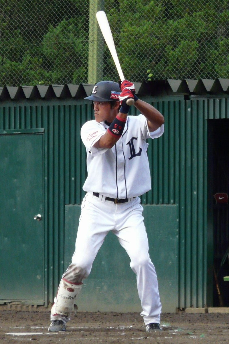 Shogo Saito, outfielder of the Saitama Seibu Lions, at Seibu Lions Baseball Ground 2.